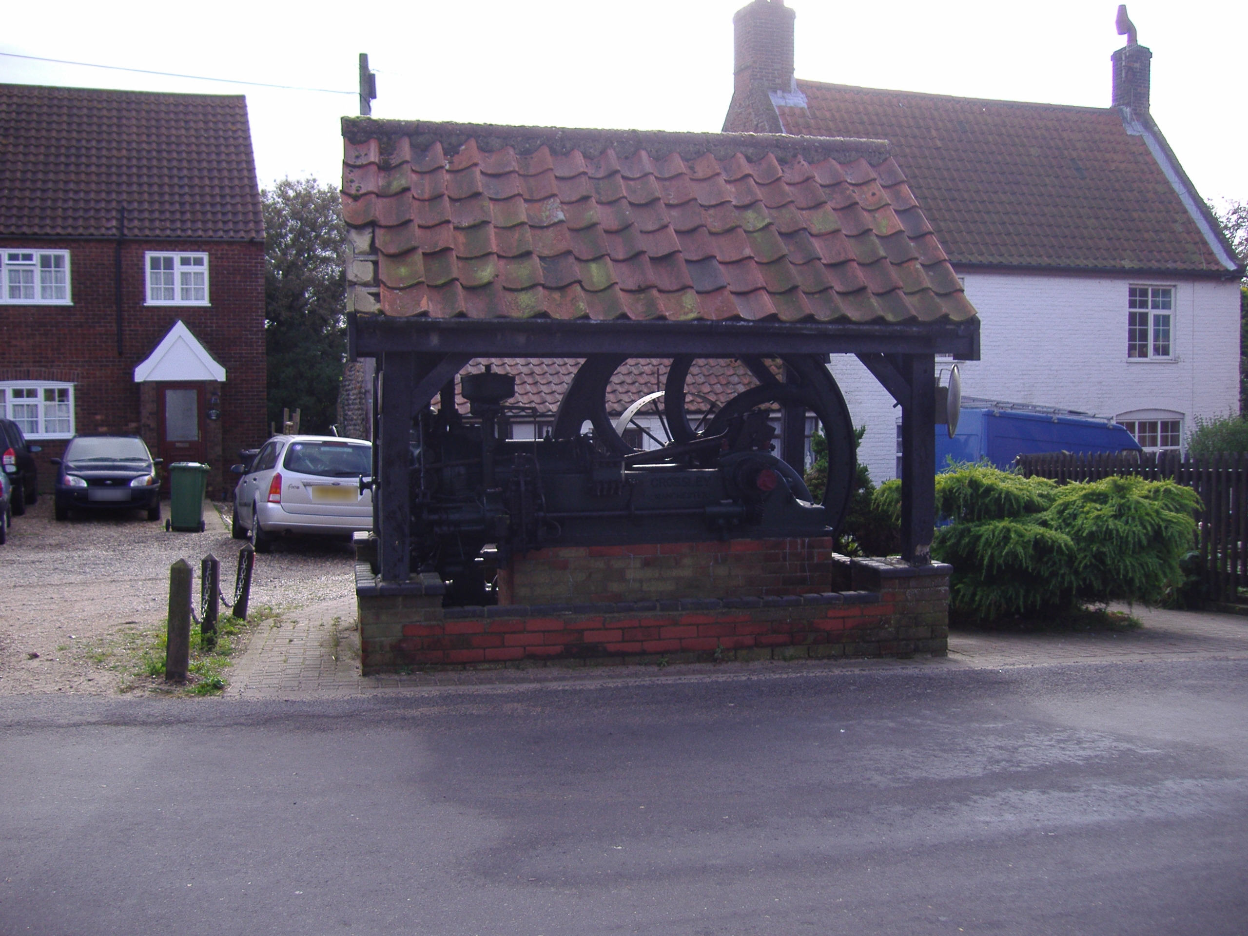 Gimingham Mill Engine Taken on the 8th October 2007